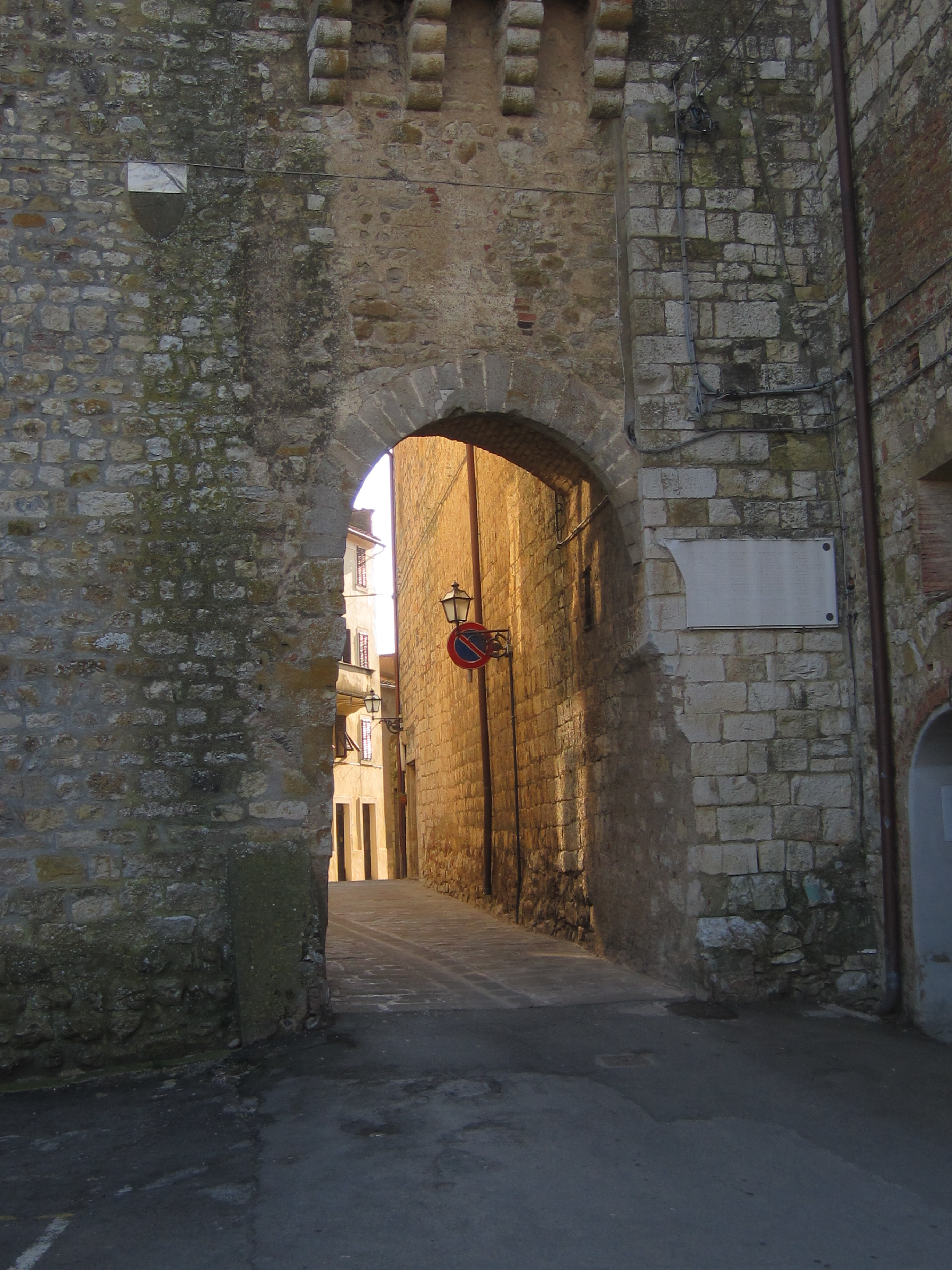 Old gate of Giuncarico, Grosseto